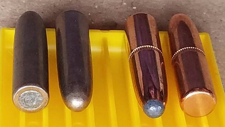 This image illustrates the jacket placement difference between full metal jacket bullets on the left and soft point bullets on the right. Both bullet types are 220-grain .30-caliber. The silver-colored cupro-nickel jacketed bullets on the left have an enclosed rounded point with a jacket opening on the flat base, while the copper-colored gilding metal jacketed bullets on the right have an enclosed flat base with a jacket opening on the rounded point. If these bullets were loaded and fired in the opposite of their intended direction, the full metal jacket bullet might expand like a soft point, and the soft point bullet might perform like a full metal jacket.